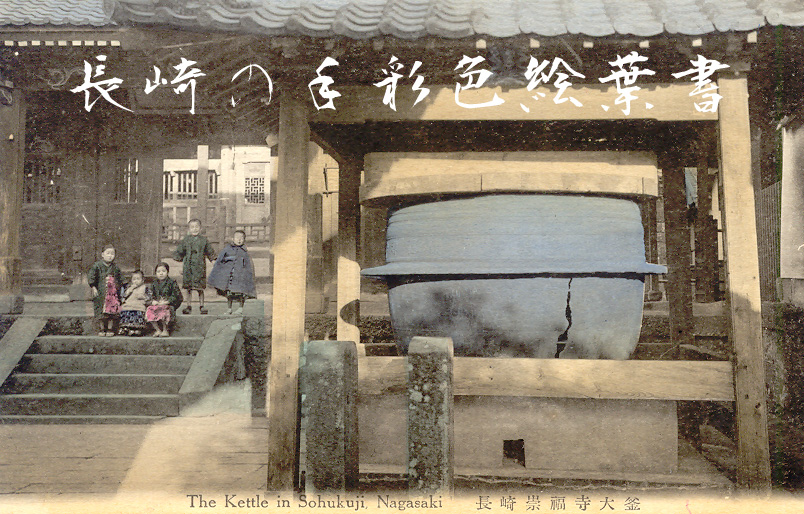 Japanese hand tinted postcard showing the large rice pot of Sofukuji, a temple in Nagasaki